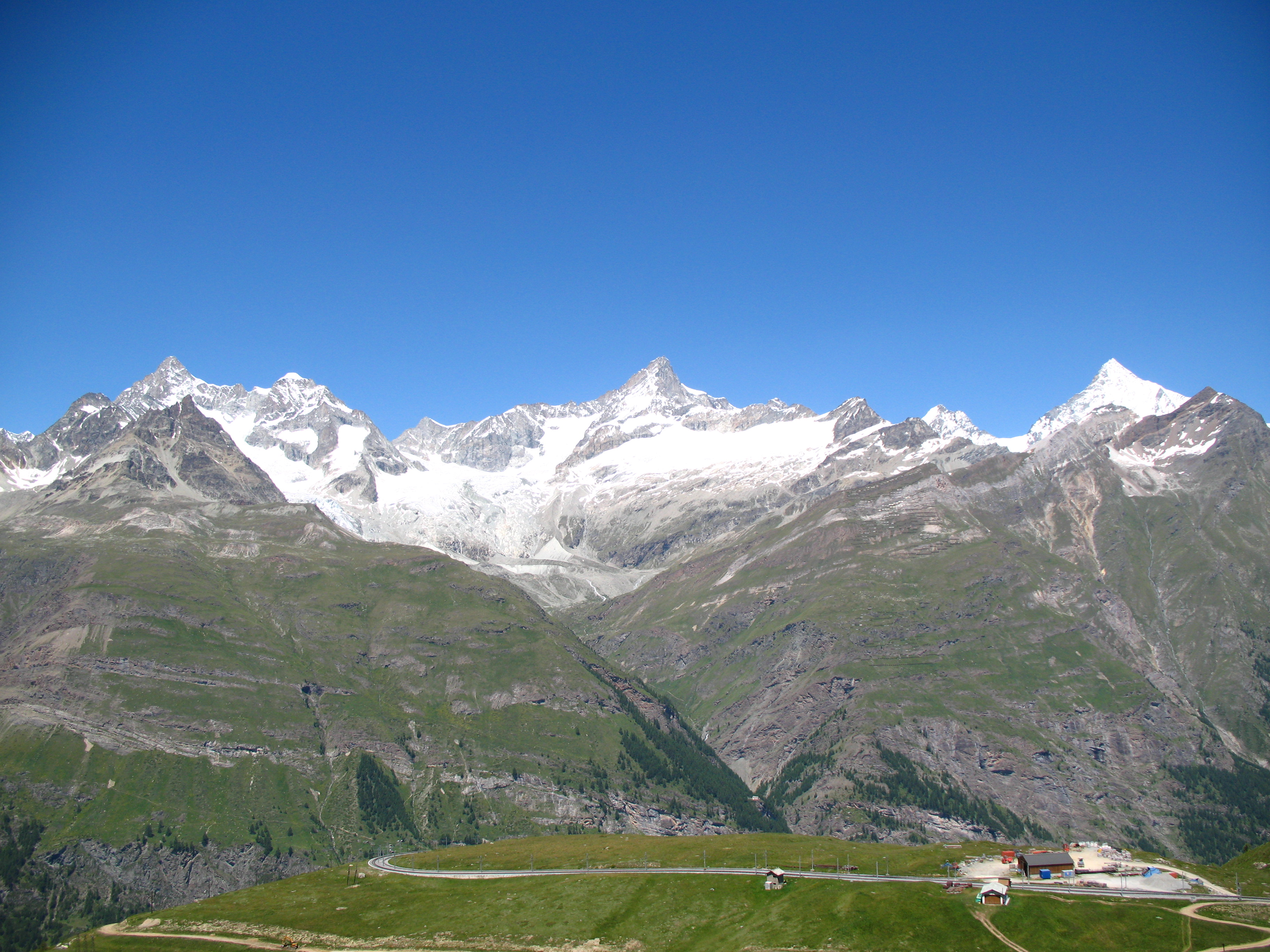 View from the Gornergratbahn, Riffelberg / Zermatt, Switzerland. In the background from the left to the right the Ober Gabelhorn (4063 metres), Wellenkuppe (3903 m), Trifthorn (3728 m), Pointe du Mountet (3877 m), Zinalrothorn (4221 m, centre of the image), Pointe Sud du Moming (3963 m), Schahhorn (3974.5 m) and Weisshorn (4505 m). In the foreground, in front of the Ober Gabelhorn, lies the Unter Gabelhorn (3391.7 m). In the ridge coming from the Zinalrothorn are two side summits, the Ober Äschhorn (3669 m) and the Unter Äschhorn (3618 m). Further one can find in the foreground, from left to right, the Wisshorn (2936 m), Platthorn (3345 m) and Mettelhorn (3406.0 m). All mountains are part of the Wallis or Pennine Alps